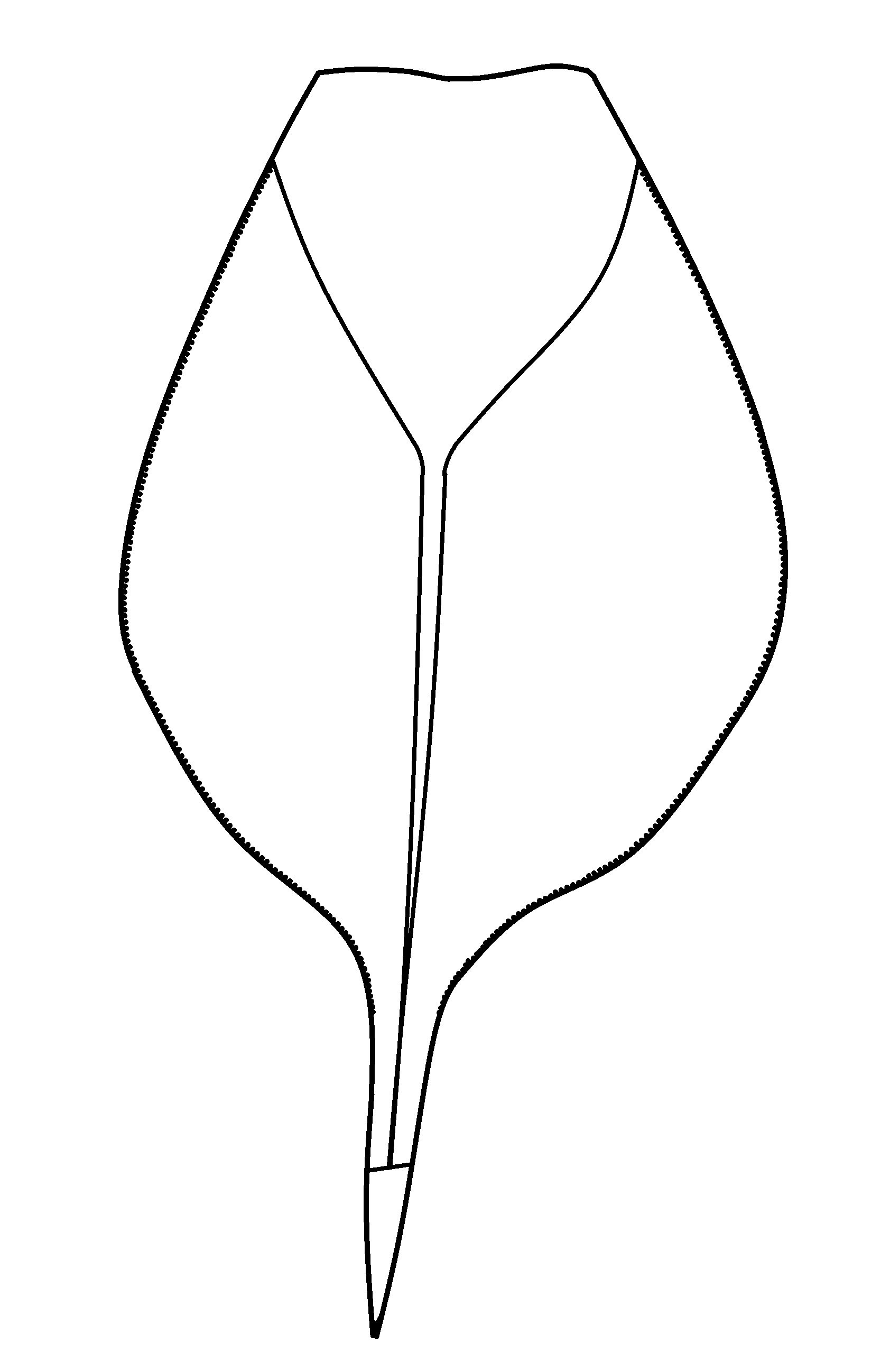 Holotype (and only known specimen) of the eurypterid species Slimonia boliviana, a telson. Based on Kjellesvig-Waering, 1973